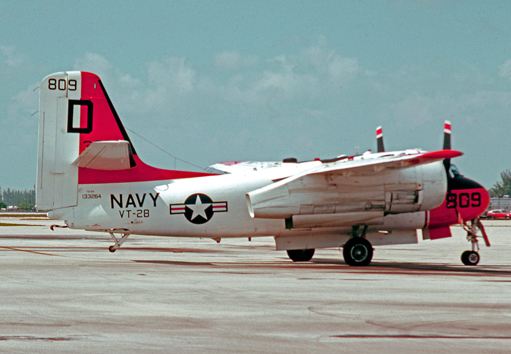 Grumman TS-2A Tracker 133264 training aircraft of VT-28 Squadron US Navy at Miami International Airport in 1976